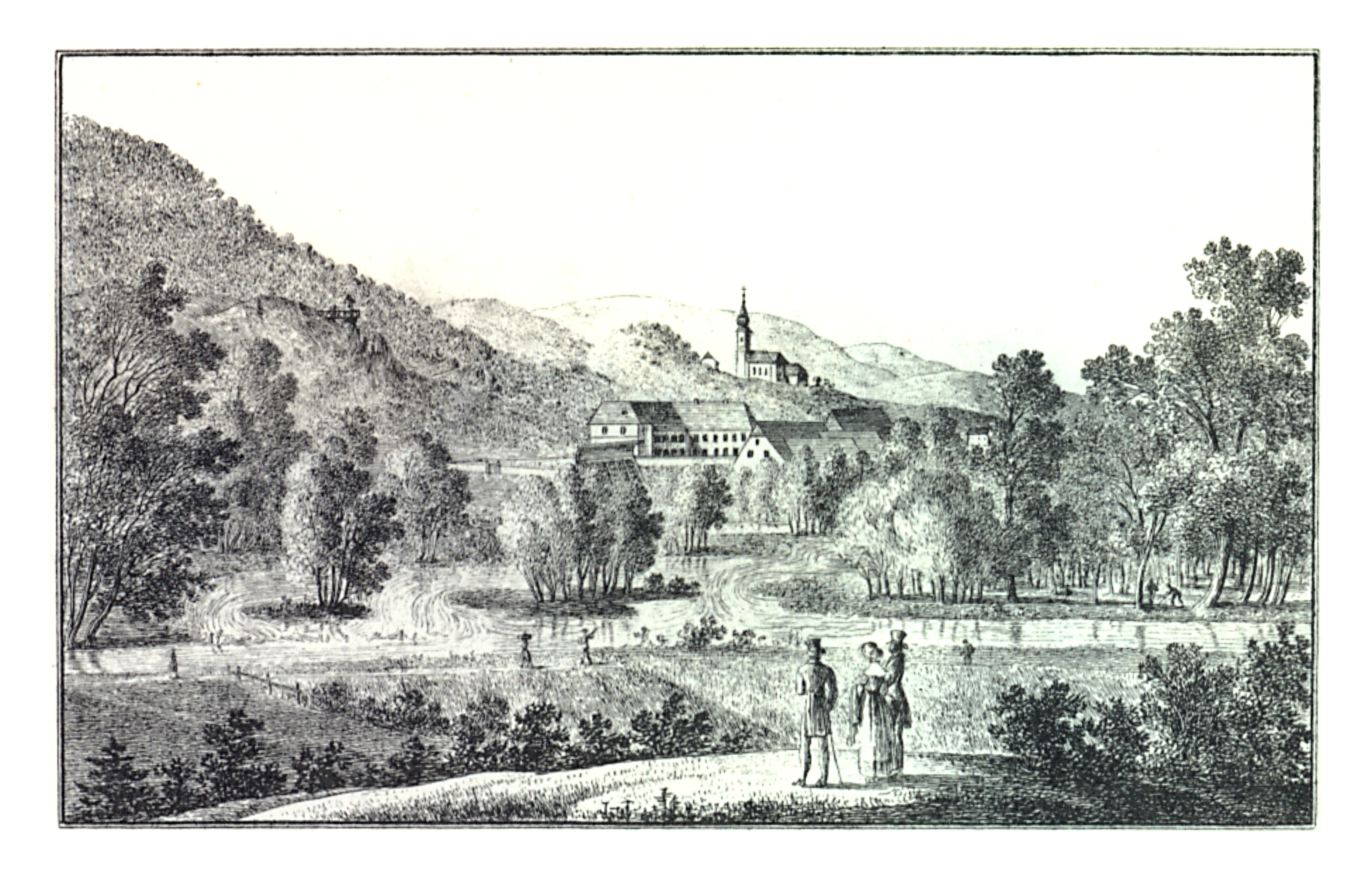 J. F. Kaiser - lithographirte Ansichten der Steyermärkischen Städte, Märkte und Schlösser, Graz 1824-1833 Joseph Franz Kaiser (1786–1859) Alternative names J. F. KaiserDescriptionAustrian printer and editorDate of birth/death 11 March 1786 19 September 1859Location of birth/death Graz (Styria) GrazAuthority control : Q1499963 VIAF: 30629353 ISNI: 0000 0000 3083 0153 LCCN: n87141671 GND: 129880159 NLP: A24960305 WorldCat creator QS:P170,Q1499963 . Scanprojekt Community Projektbudget 2012 This scan or this PDF-file was created within the GLAM-project Bookscanning, supported by Wikimedia Germany and Wikimedia Austria as a part of the community-project to capture books, documents and pictures which are not eligible to copyright or for which the copyright has expired. This document describes or depicts an object which is located in Austria today. Send requests for uncompressed scans to Hubertl. This work is in the public domain in its country of origin and other countries and areas where the copyright term is the author's life plus 100 years or fewer. You must also include a United States public domain tag to indicate why this work is in the public domain in the United States. This file has been identified as being free of known restrictions under copyright law, including all related and neighboring rights.